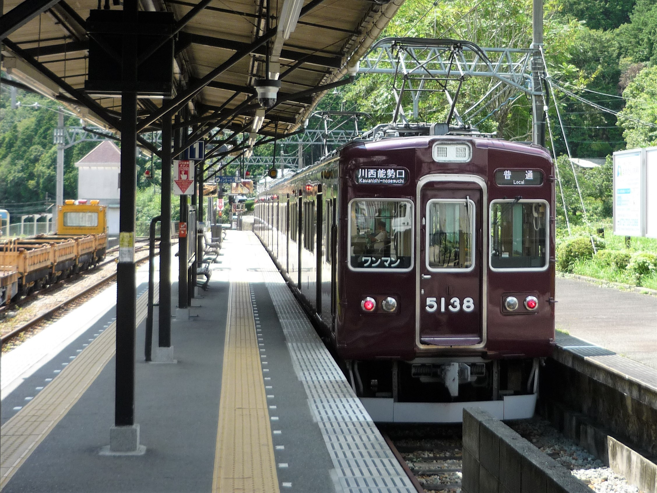 Nose Electric Railway 5100 series EMU set 5138 at Myōkenguchi Station in Toyono, Osaka, Japan